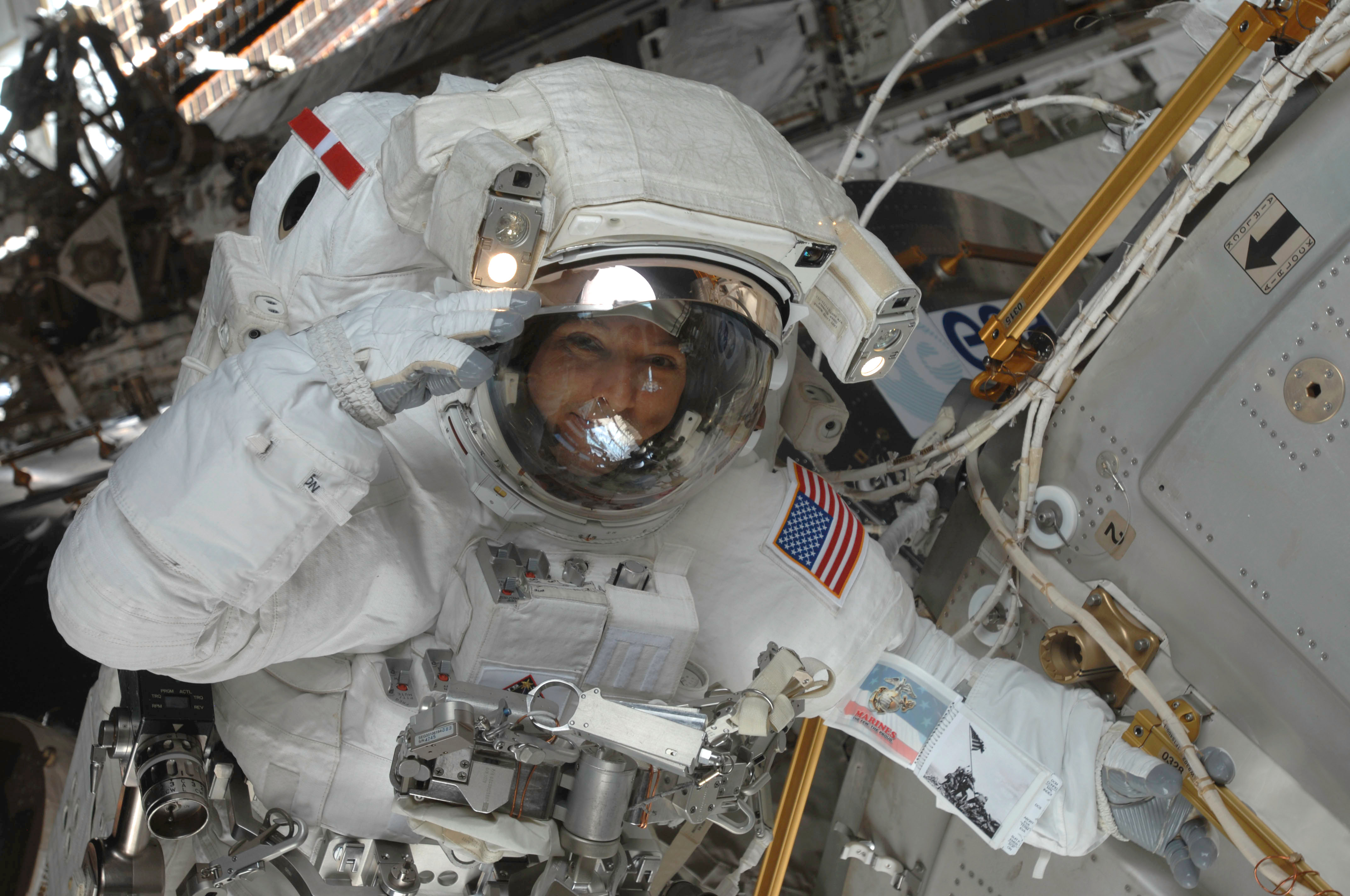 Astronaut Randy Bresnik, STS-129 mission specialist, salutes crewmates while positioned near the European Space Agency's Columbus module on International Space Station. Astronauts Bresnik and Mike Foreman were in the midst of the second of three scheduled spacewalks for this shuttle crew, working in cooperation with the five current crewmembers for the orbital outpost and with their five Atlantis crewmates, all of whom pitched in EVA support from inside.